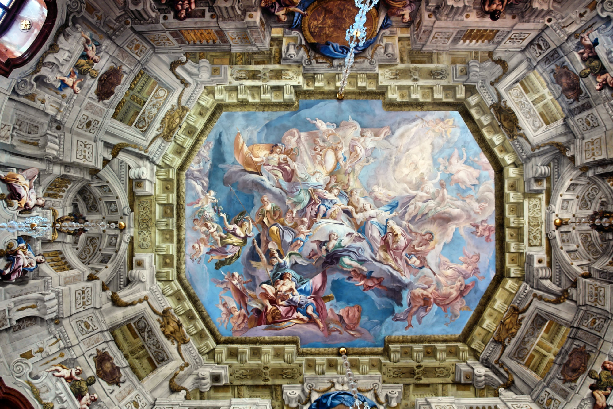 Prince Eugene as a new Apollo and leader of the Muses - Marble Hall. The only "real things" are the two window frames on the left and the four lamps. Any thing else is illusion on an almost flat ceiling. Upper right "over-exposition" creates the illusion of light entering the top-right window. Fresco in Upper Belvedere, Vienna - Austria.